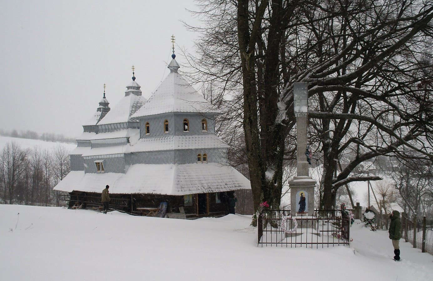 The church of Viska.